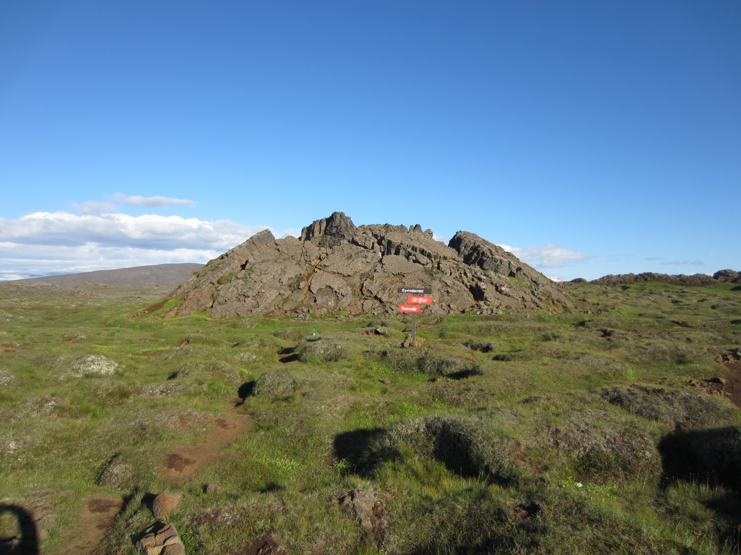 Eyvindarrétt near Hveravellir, Iceland